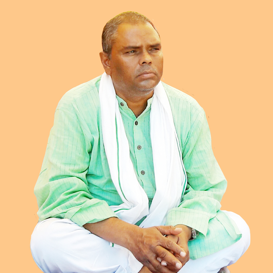 Leader of FSFN Upendra Yadav at Rajbiraj in an election rally.